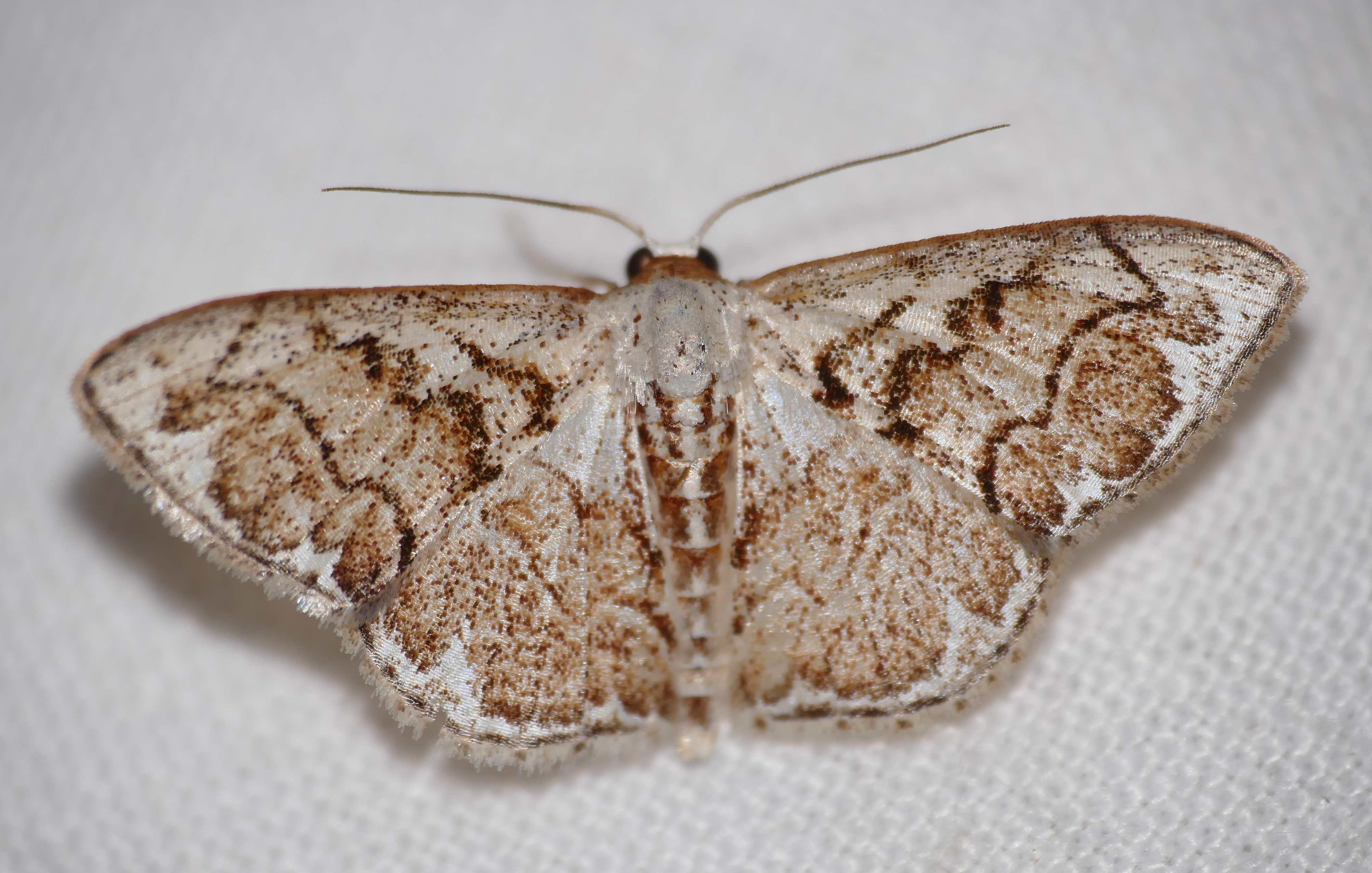 D6 Route de Kaw, Roura, French Guyana, FRANCE